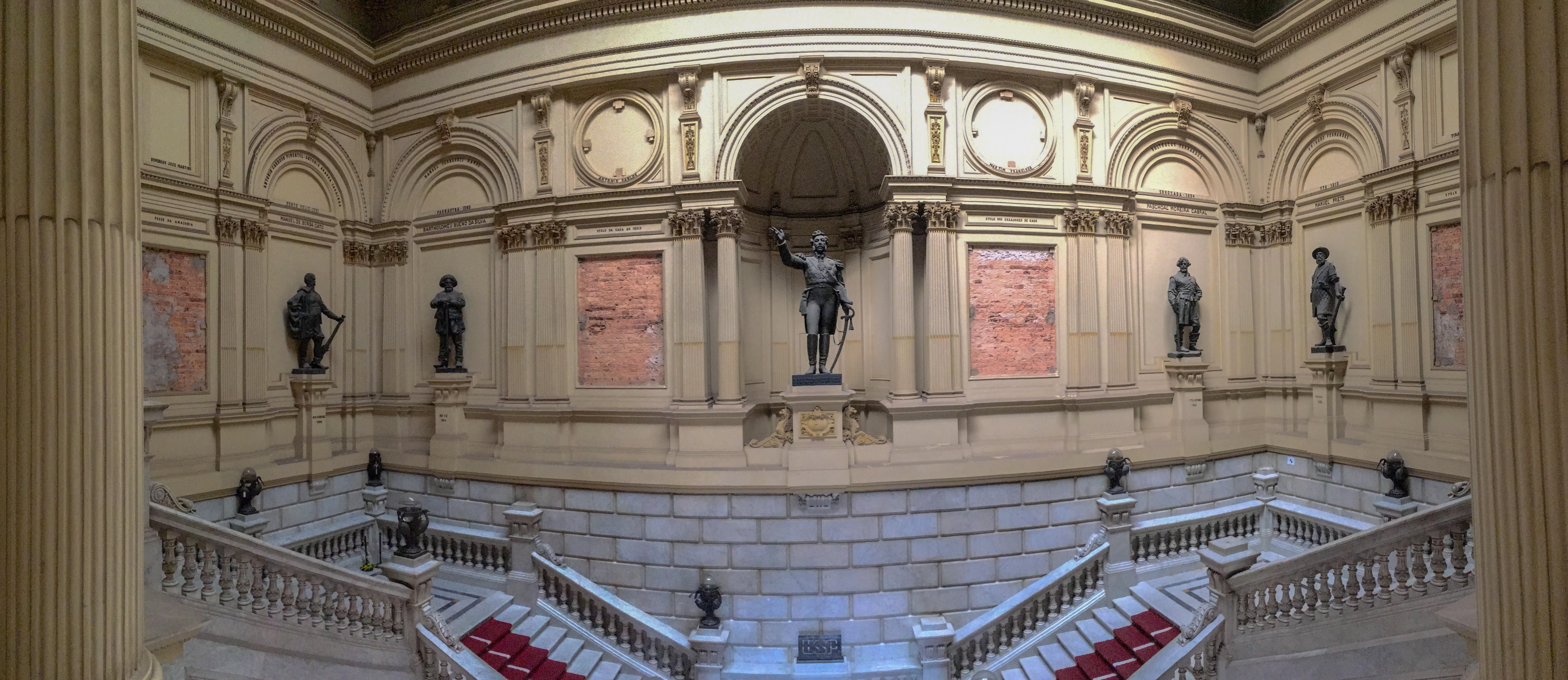 Backstage tour of the Museu do Ipiranga, University of São Paulo, Brazil